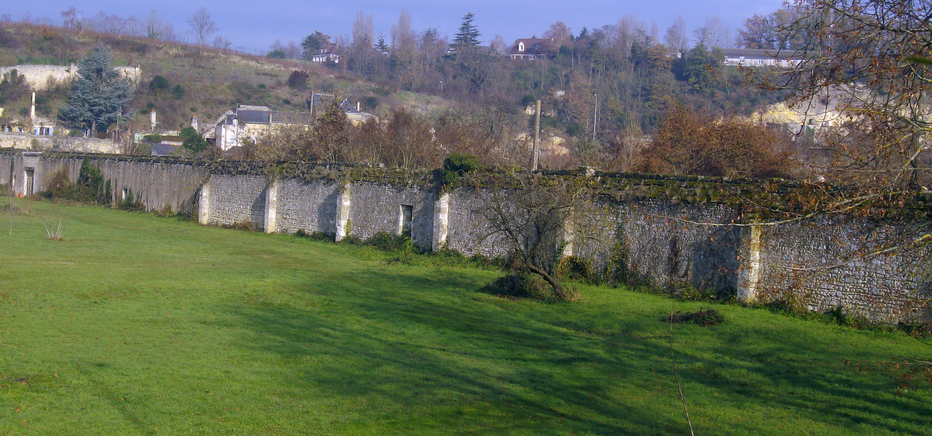 mur d'enceinte de Marmoutier